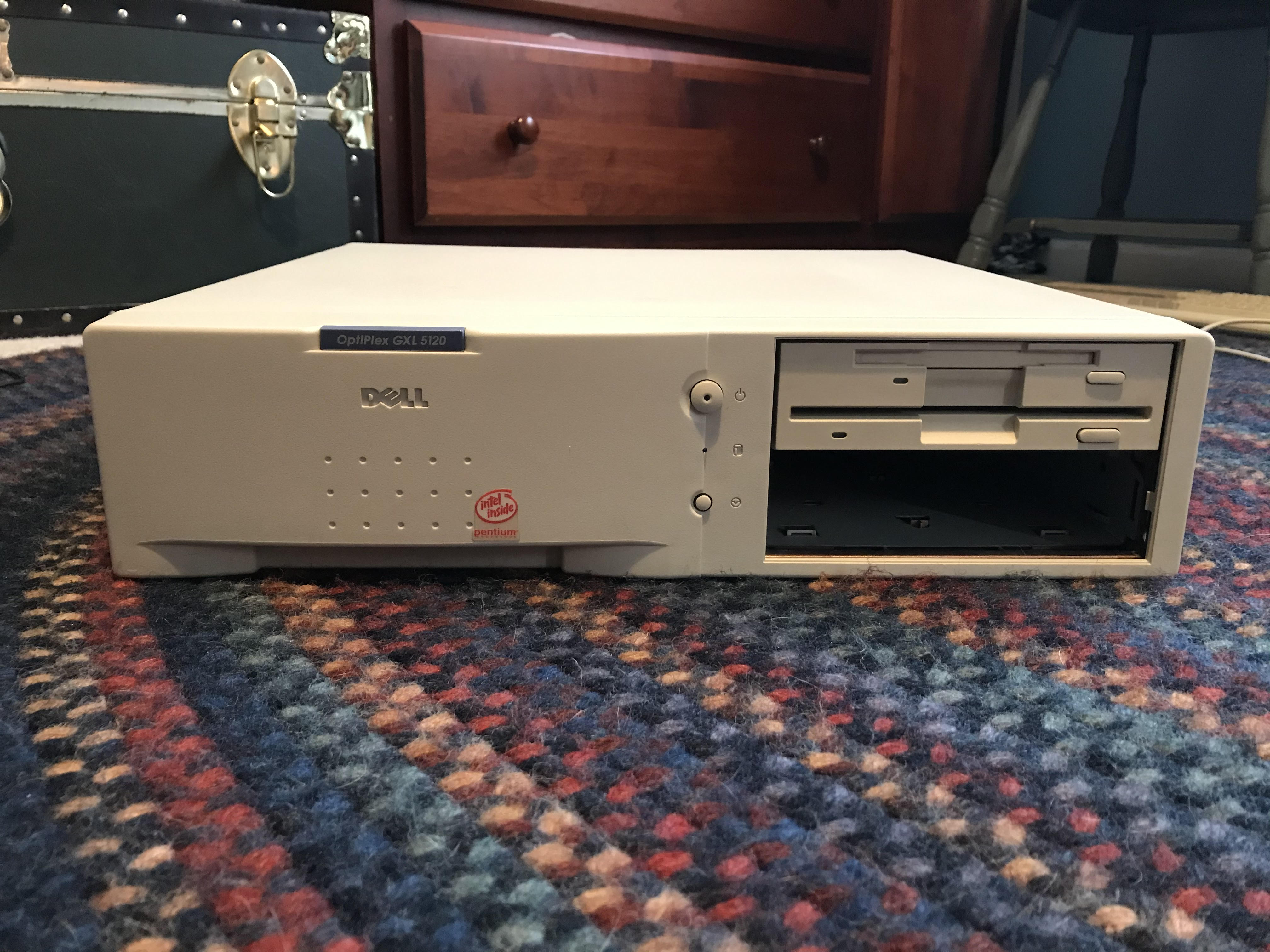 First Generation Dell Optiplex